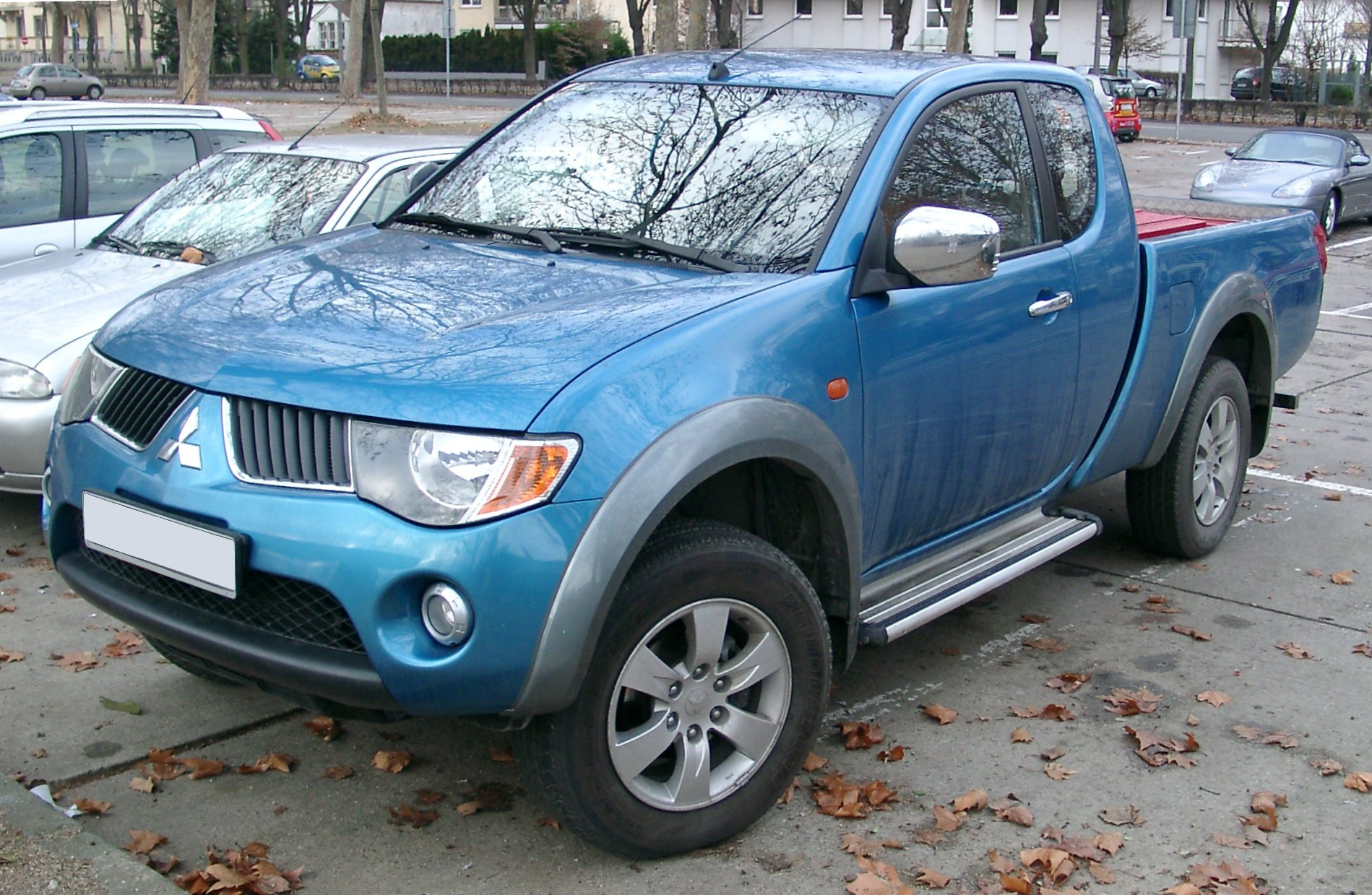 Mitsubishi L200, 4. Generation